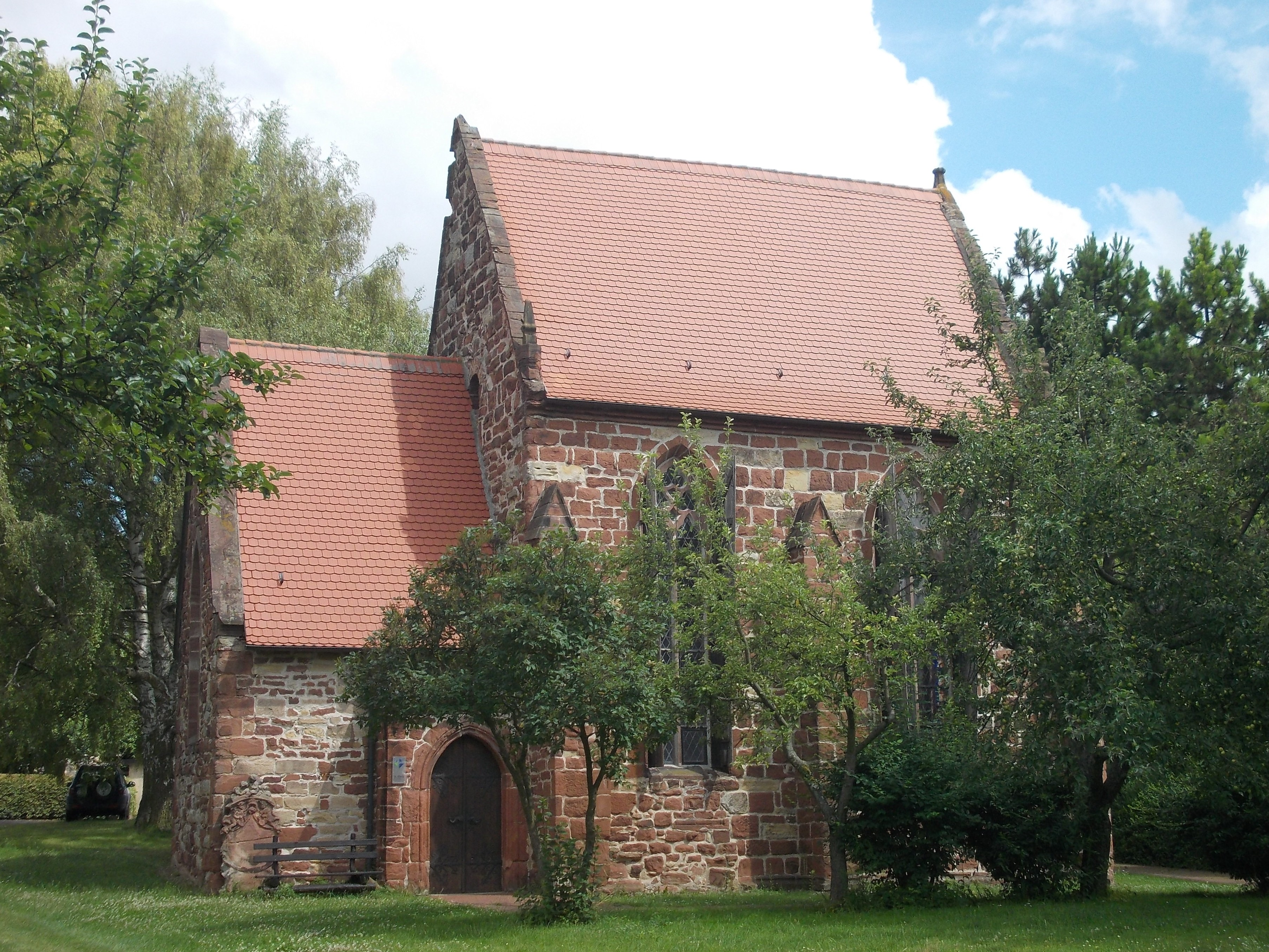 Abbot's Chapel of the former Cistercian monastery in Sittichenbach (Eisleben, Mansfeld-Südharz district, Saxony-Anhalt), today a Protestant church